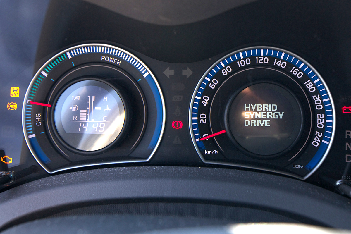 Cockpit of a Toyota Auris Hybrid